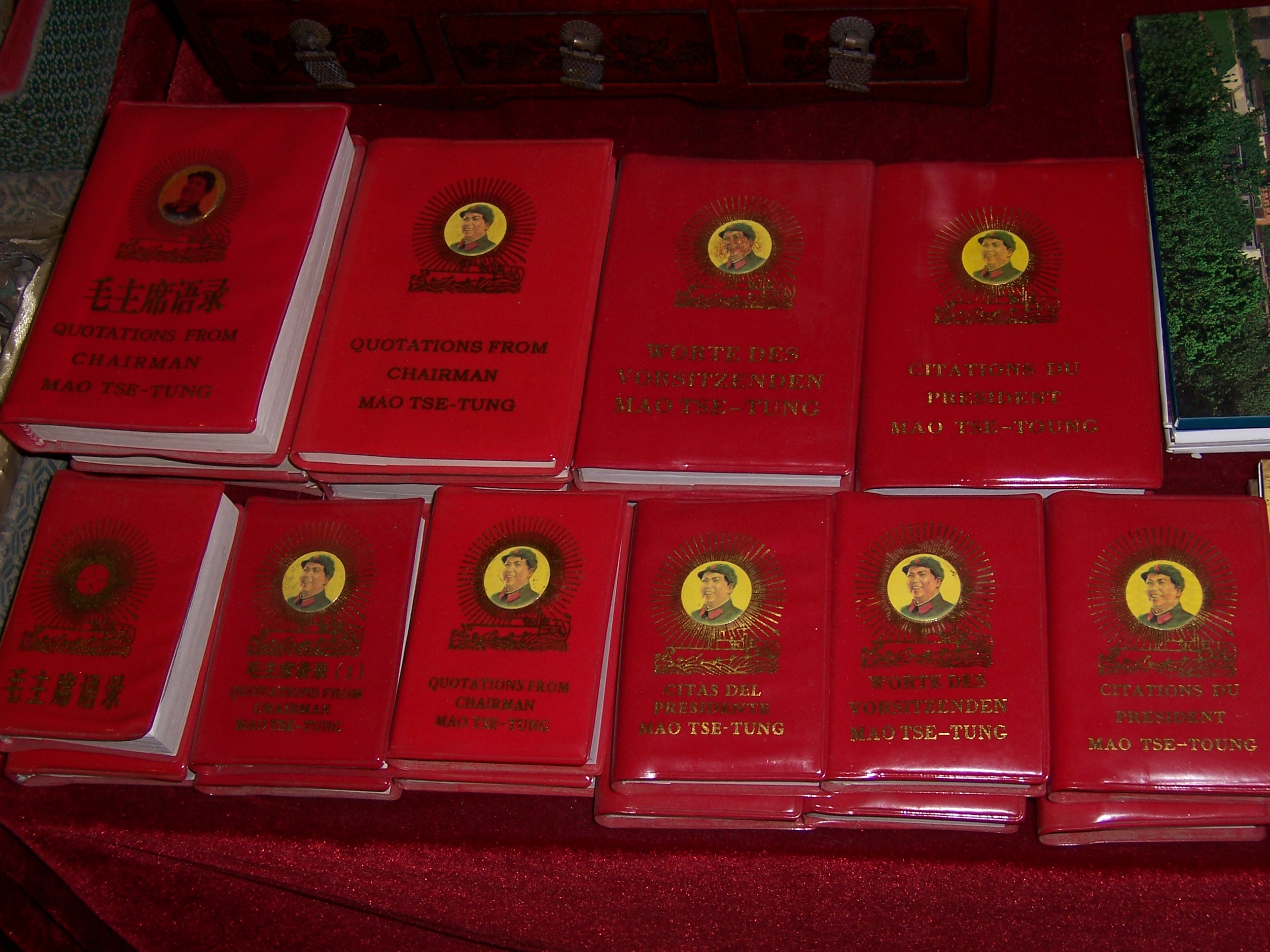 China - Xian 13 - Mao's red book on sale at the market